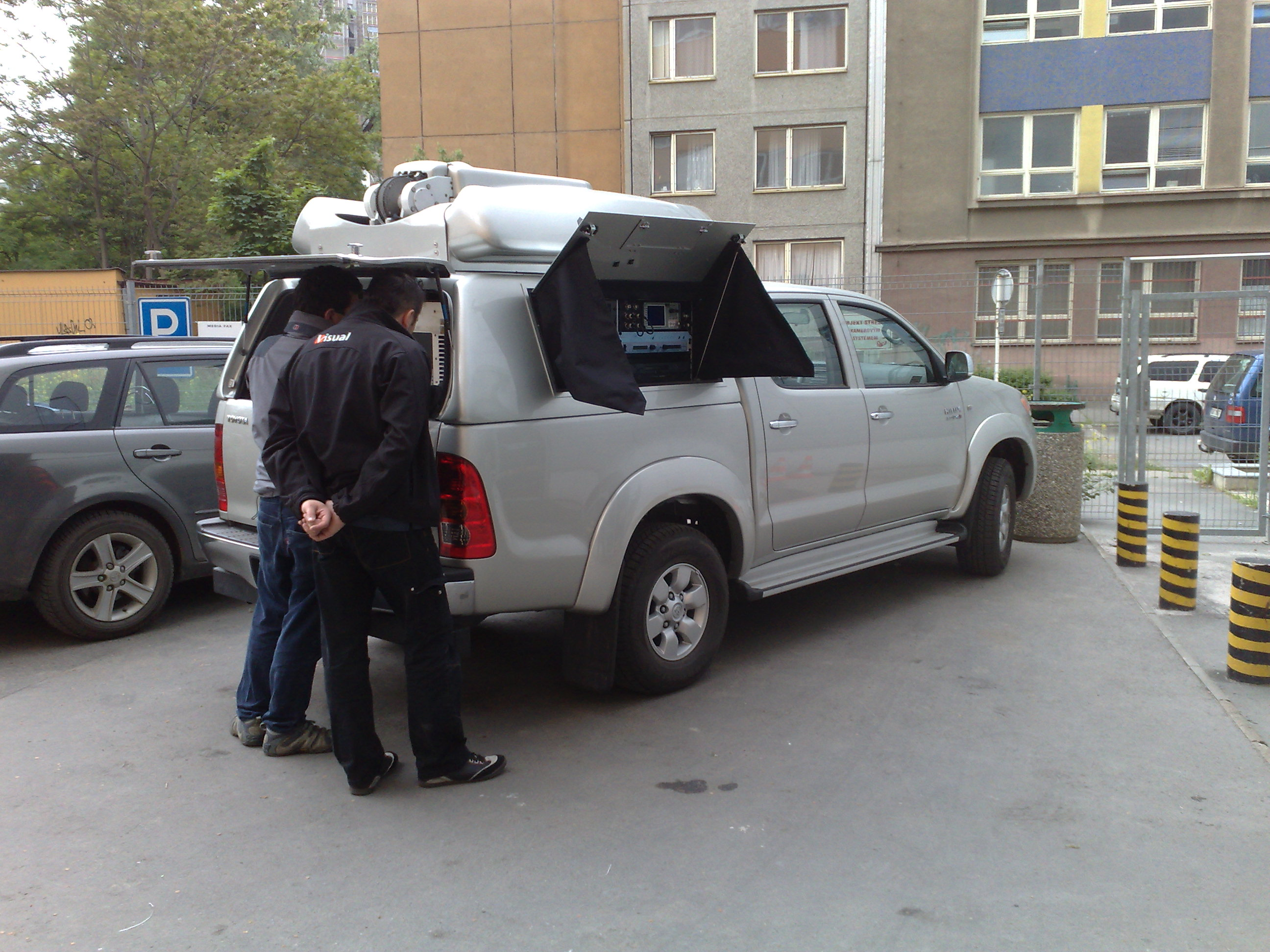 SNG, television Z1, CZ, 2008